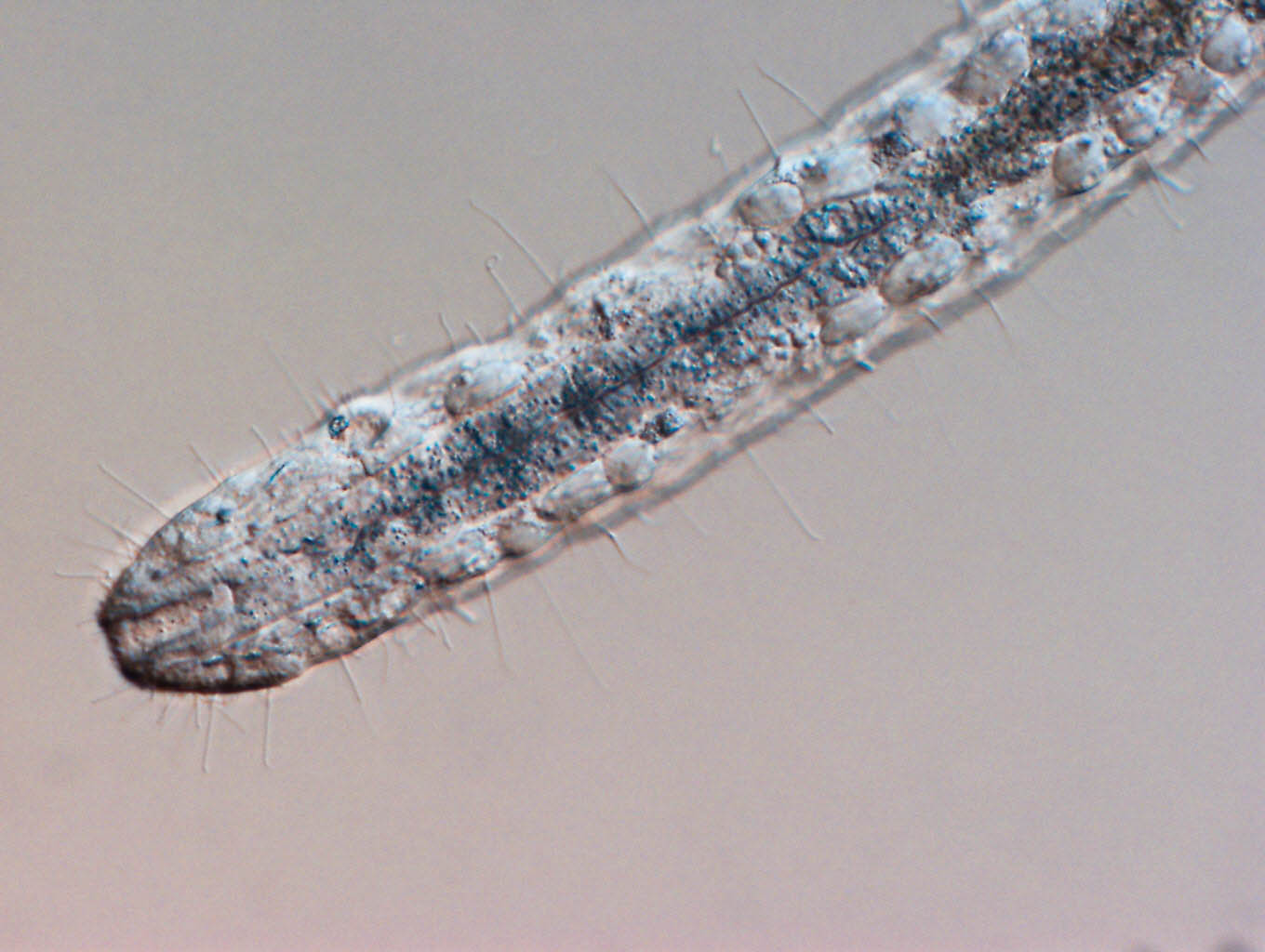 Macrodasys